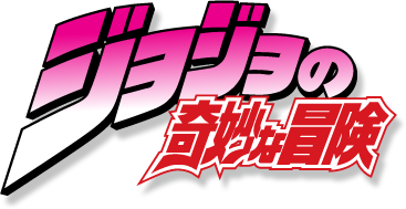 Logo for Hirohiko Araki's comic JoJo's Bizarre Adventure.